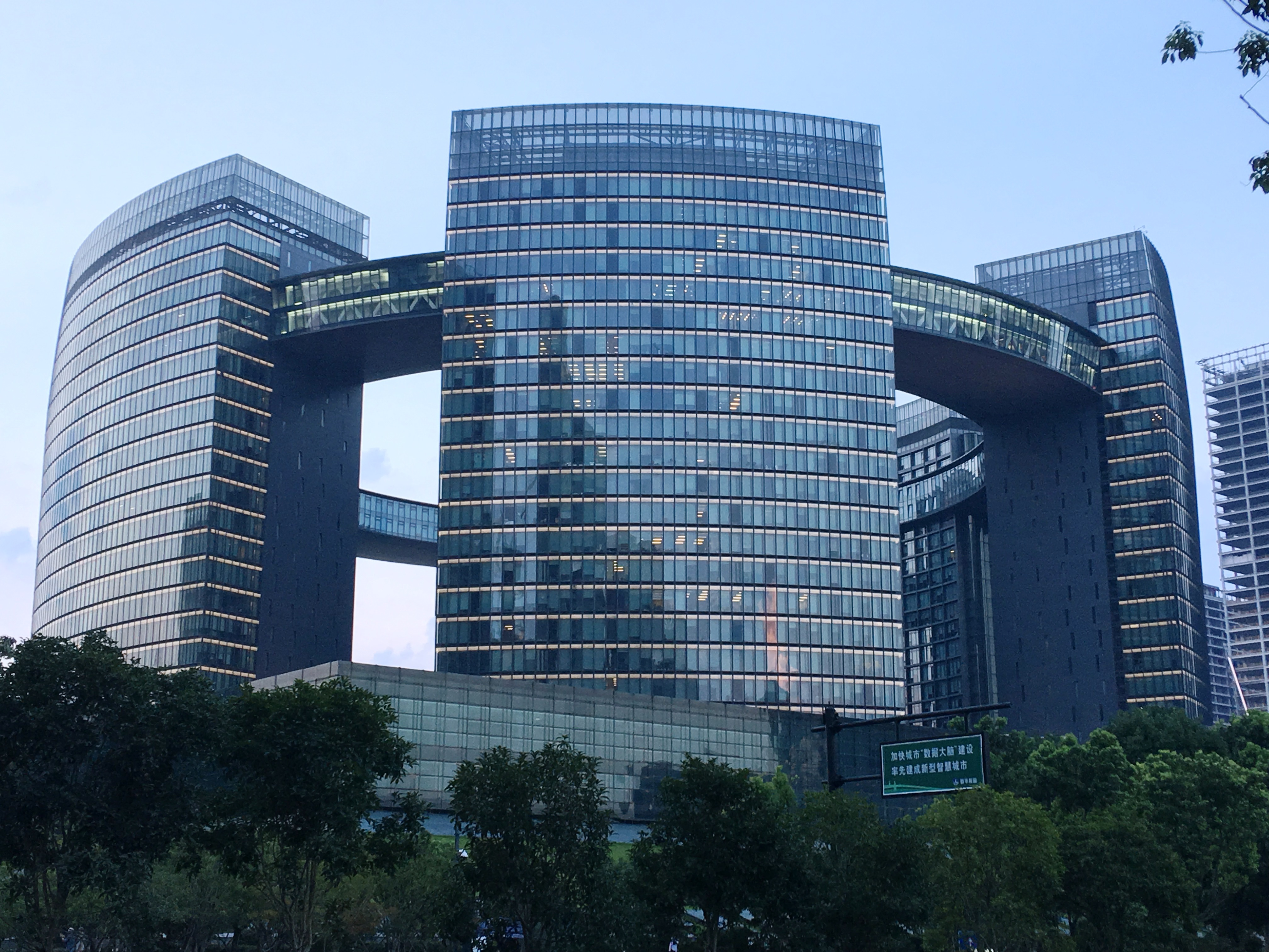 Civic conventio ncenter in the Hangzhou CBD area.